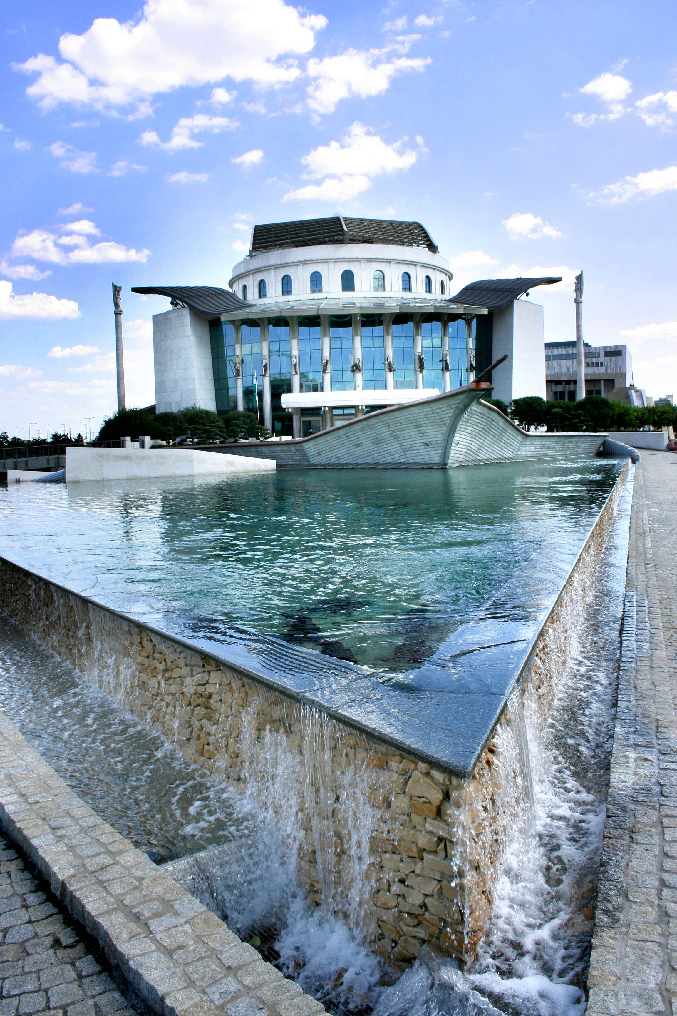 Hungarian National Theater Budapest, Hungary